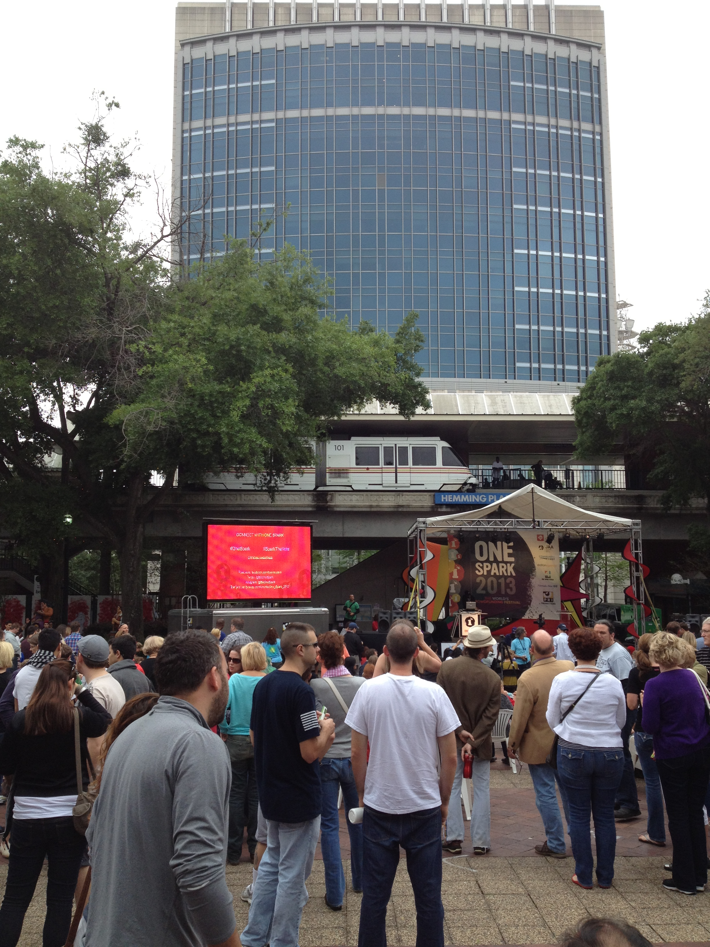 Hemming Plaza